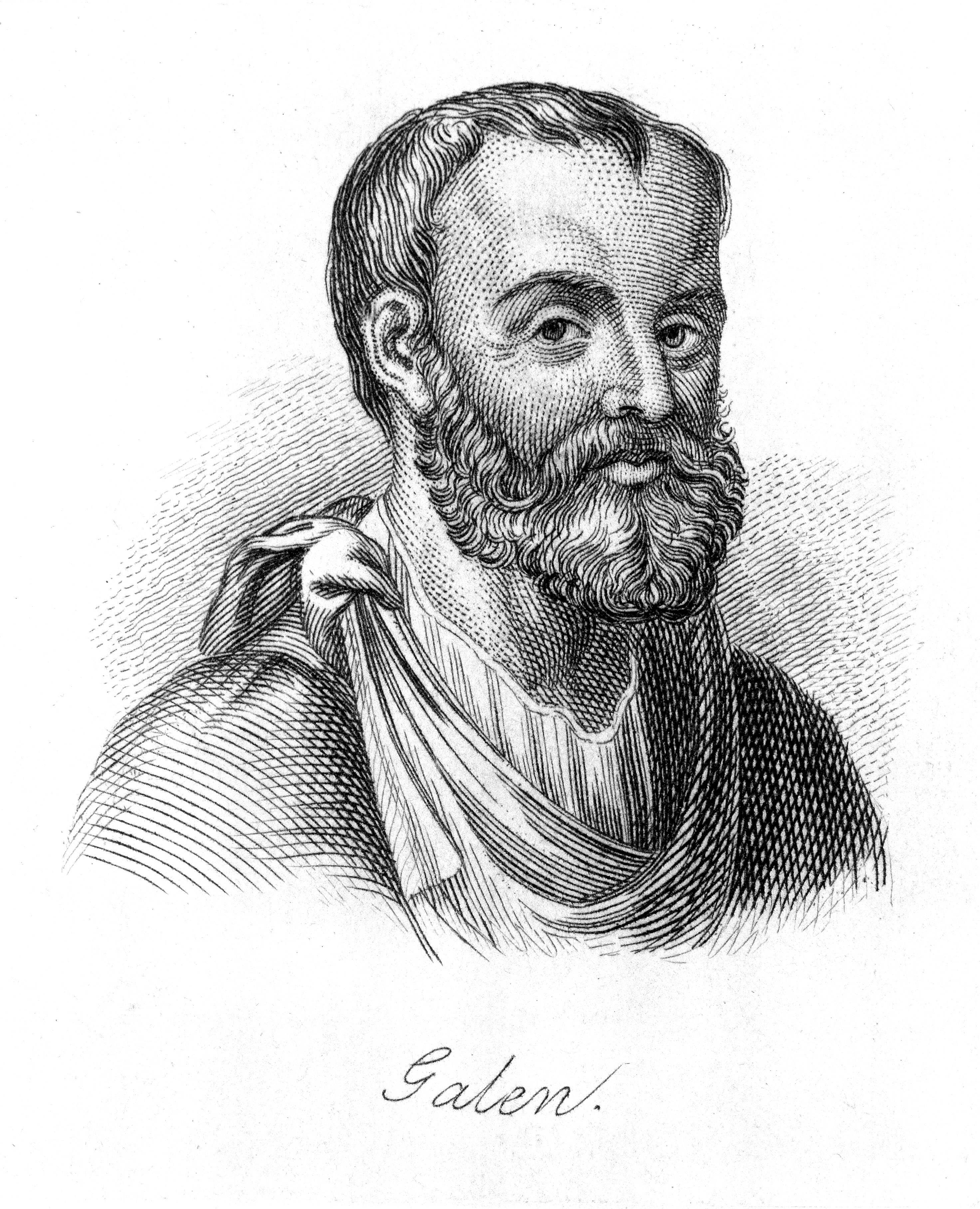 Galen. Line engraving. Iconographic Collections Keywords: Galen